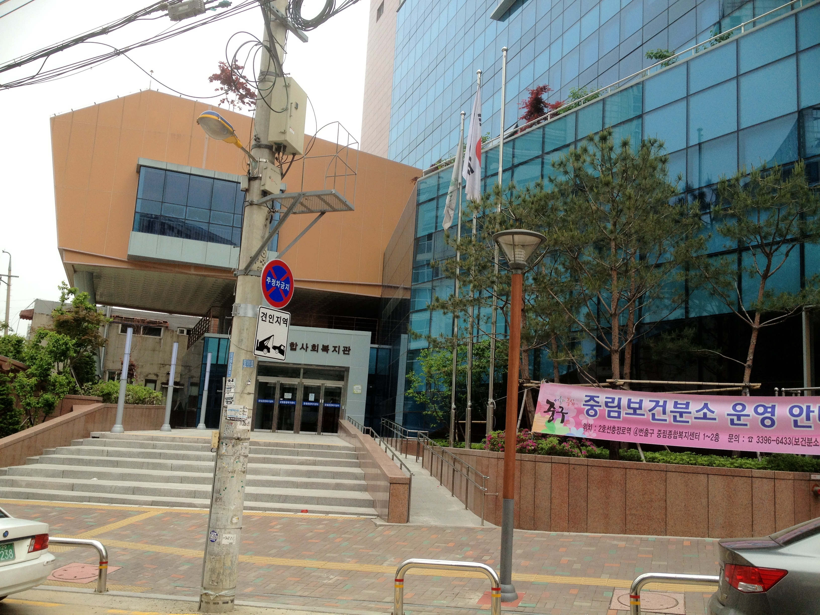 Jungnim-dong Comunity Service Center(Jung-gu)